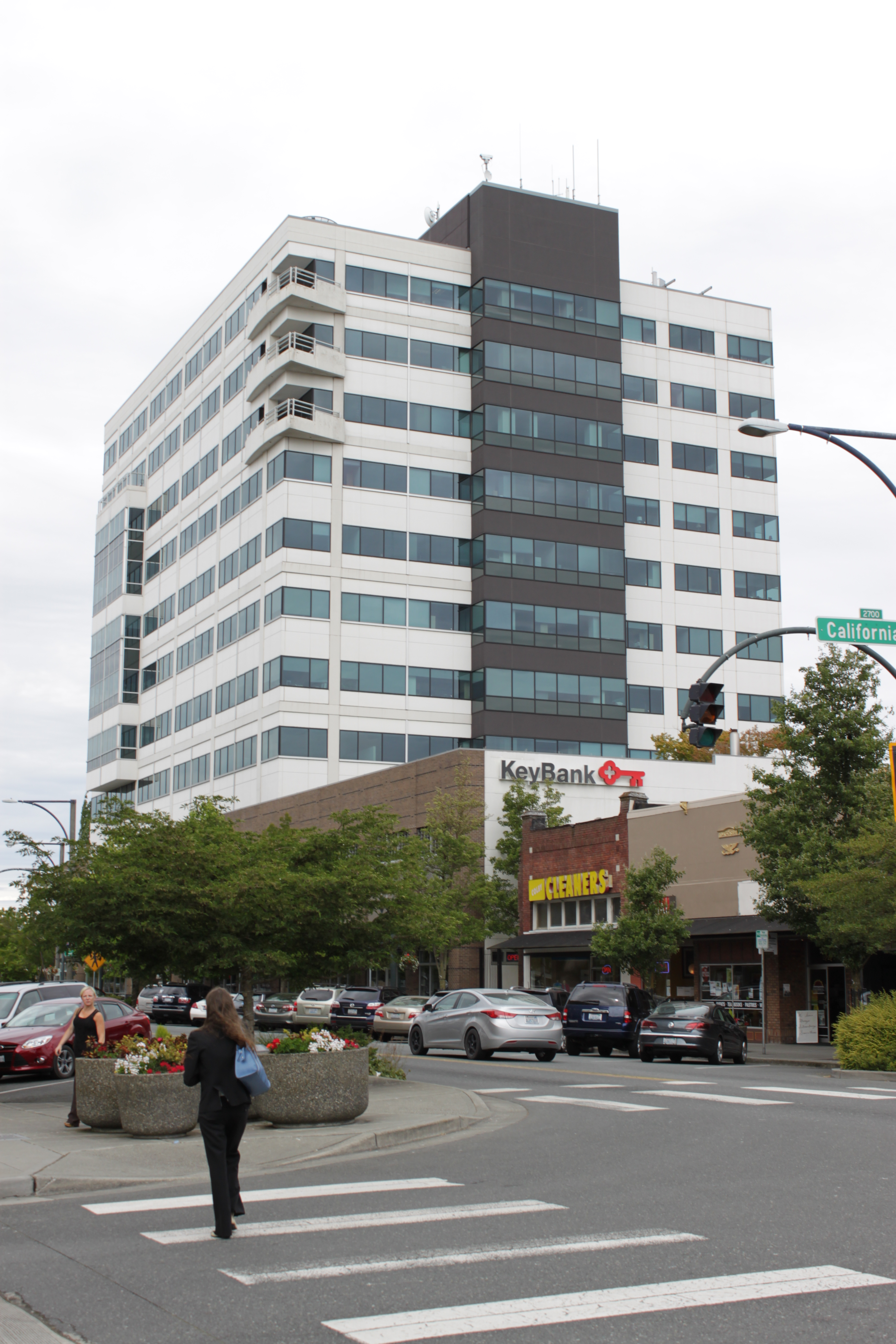 The 11-story Everett Mutual Tower is the tallest building in Everett, Washington when measured to the architectural tip, and 2nd when measured to the roof.